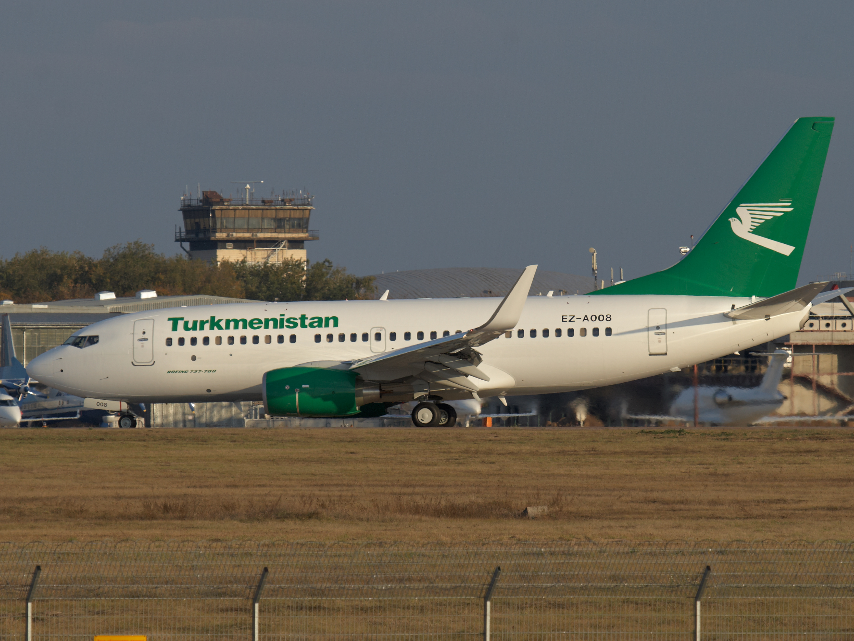 Turkmenistan Airlines Boeing 737-700 at Borispil Airport in Kiev